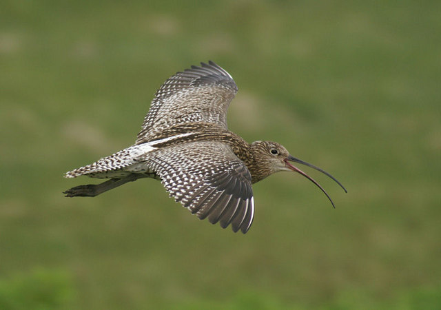 Curlew (Numenius arquata) A common breeding bird in Shetland.